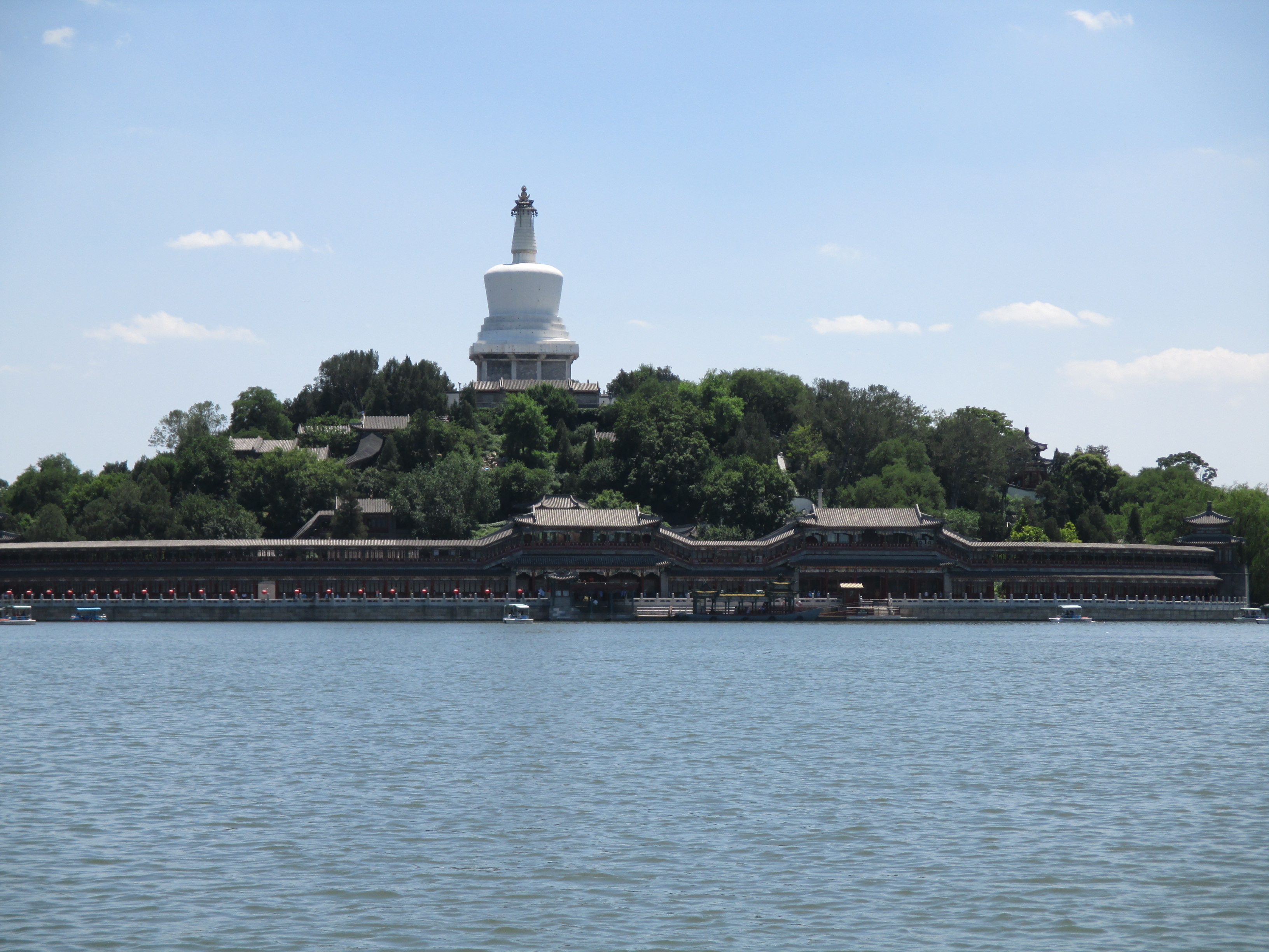 Jade Flower Island in Beihai Park (Beijing, China).